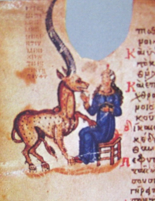 A virgin with unicorn. Chludov Psalter. Damaged folio with missed miniature